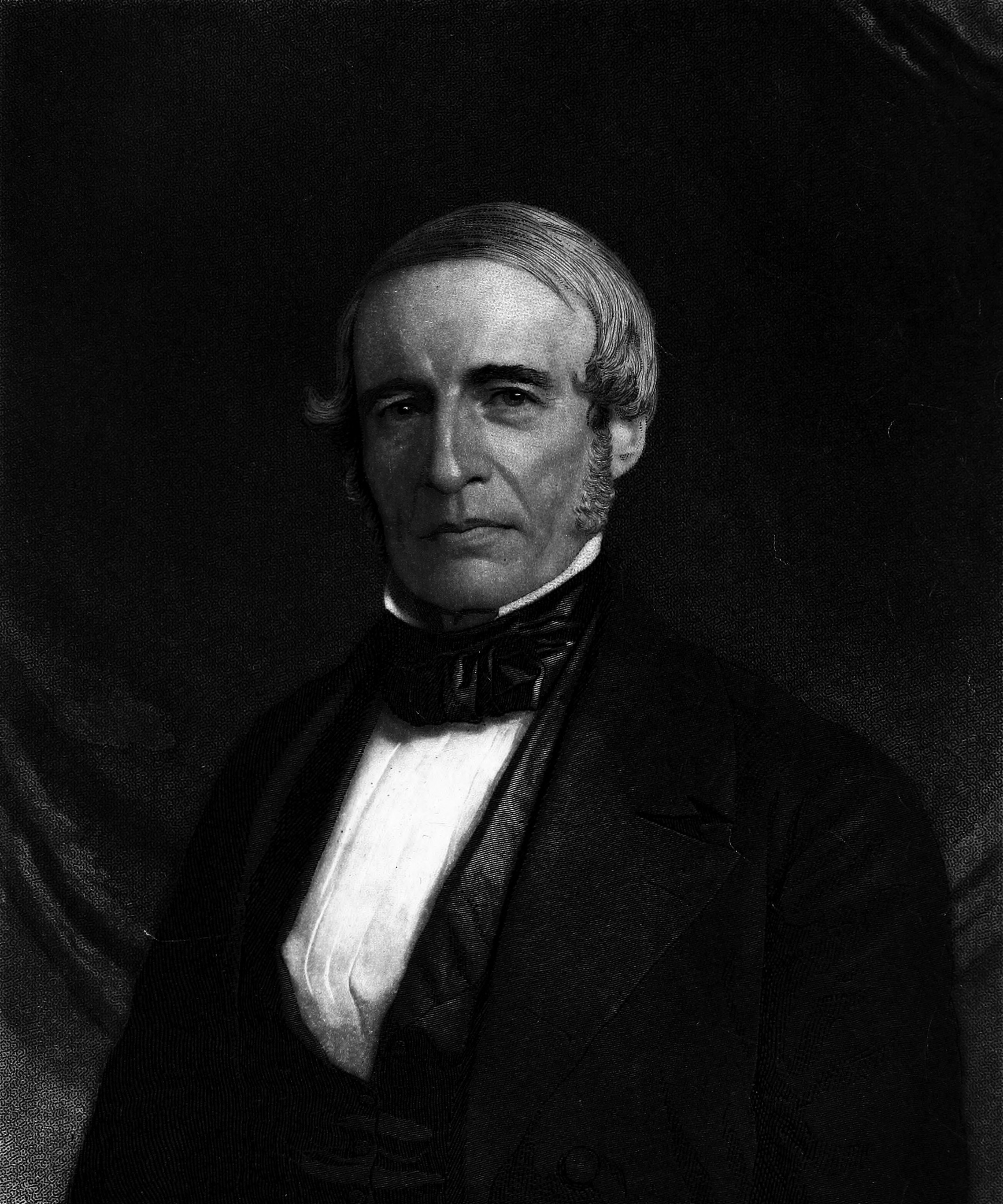 Portrait engraving of Isaac Hays